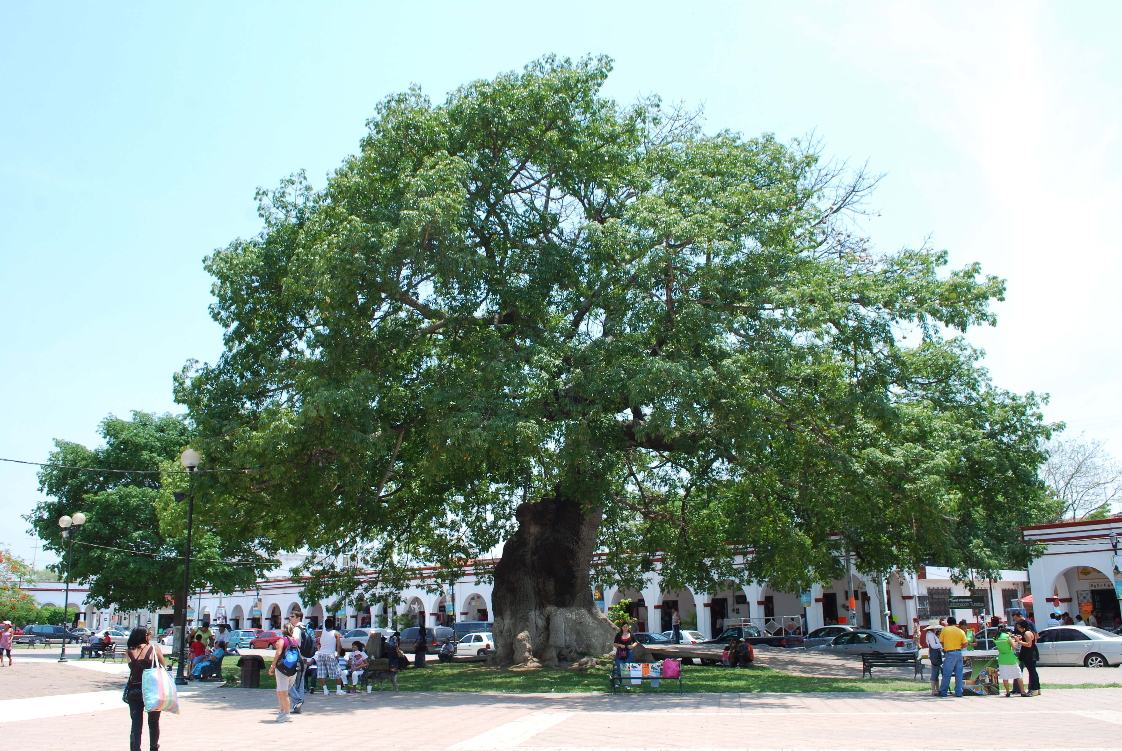 View of the La Pochota Tree in the main square of Chiapa de Corzo, Chiapas, Mexico